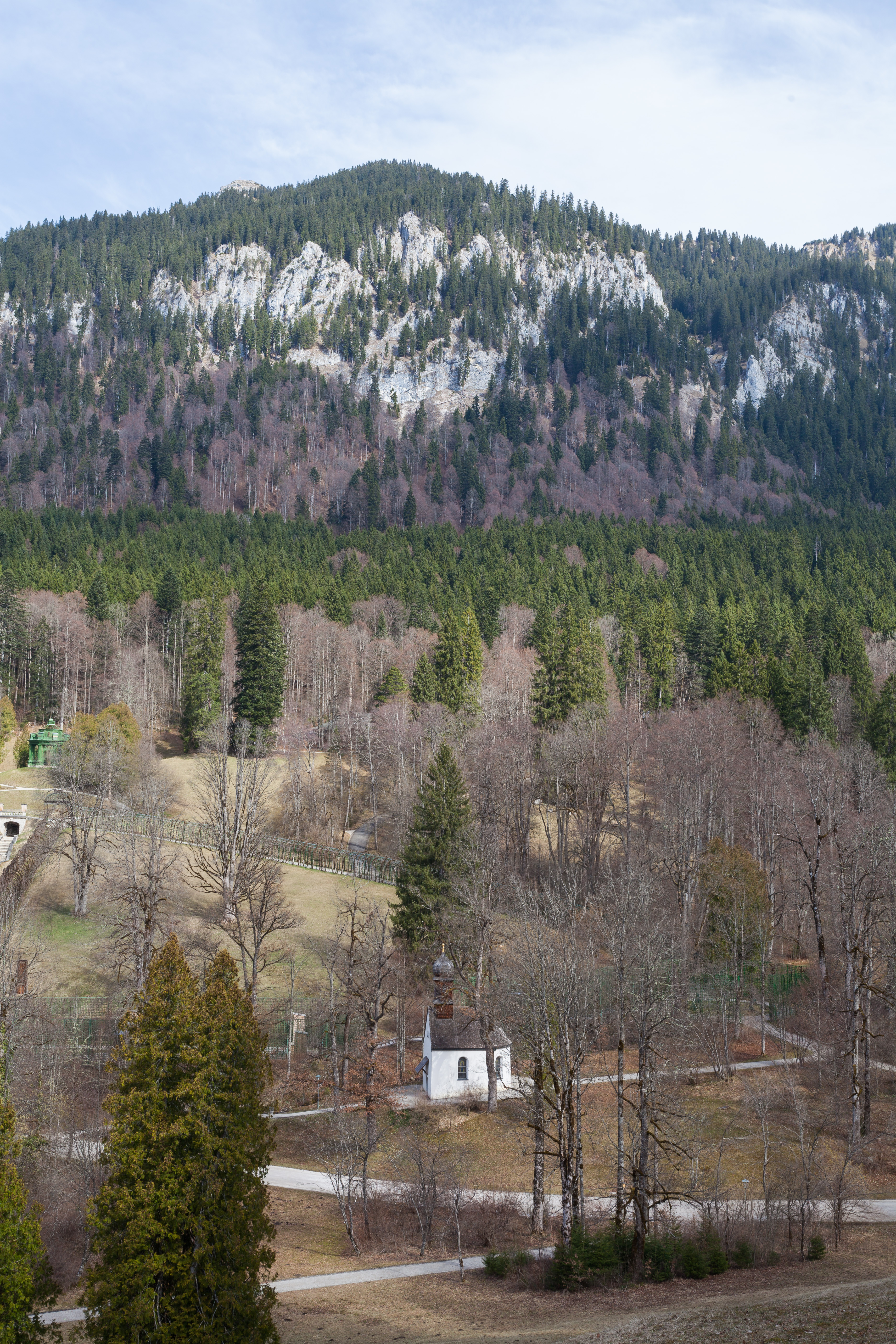 Linderhof Palace, Bavaria, Germany